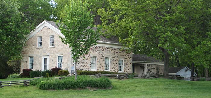 The Jonathan Clark House, a National Registered Historic Place, in Mequon, Wisconsin.